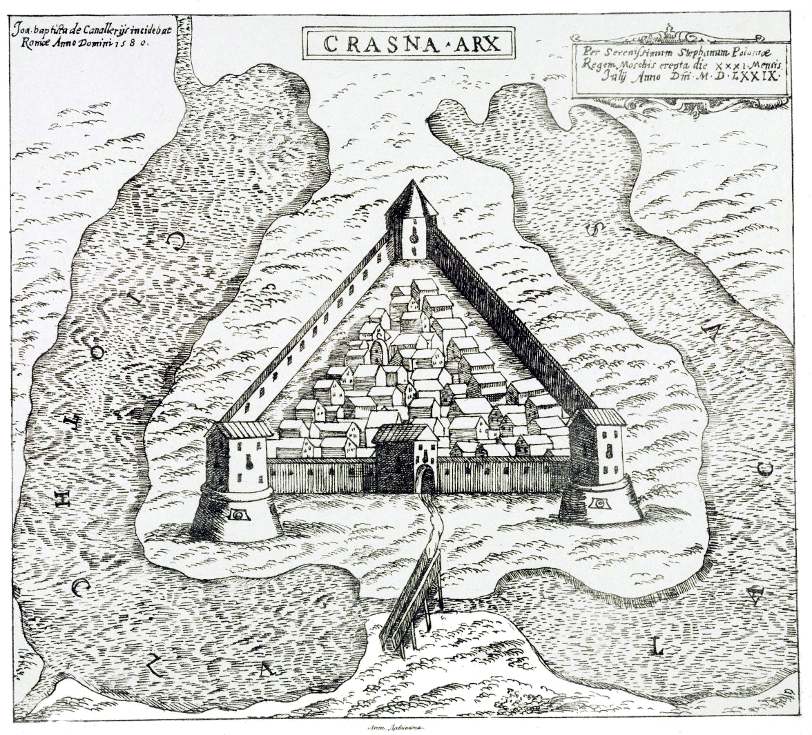 Krasna Castle